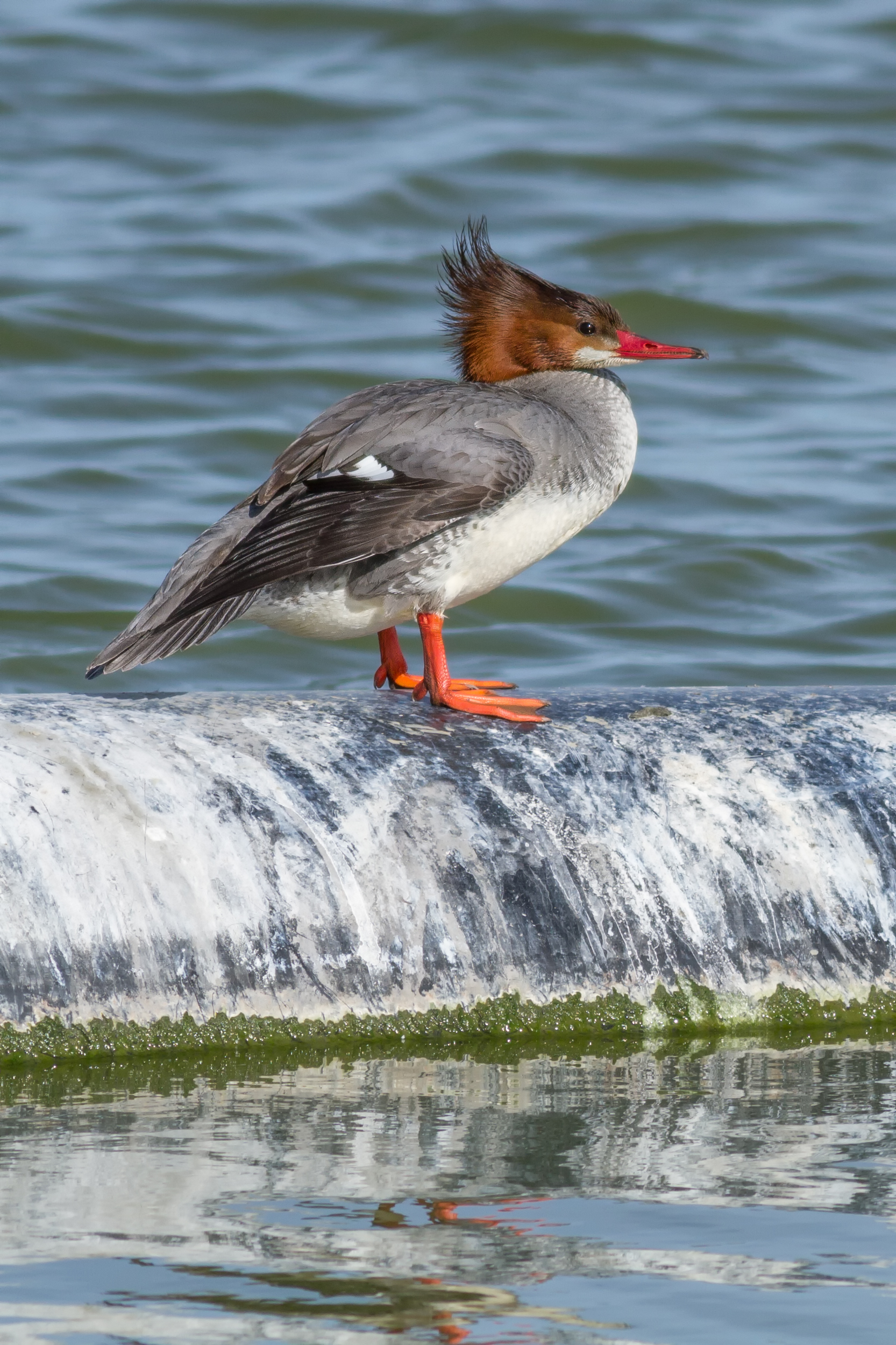 Common Merganser ♀ (Mergus merganser americanus) at Las Gallinas Wildlife Ponds, San Rafael, California.